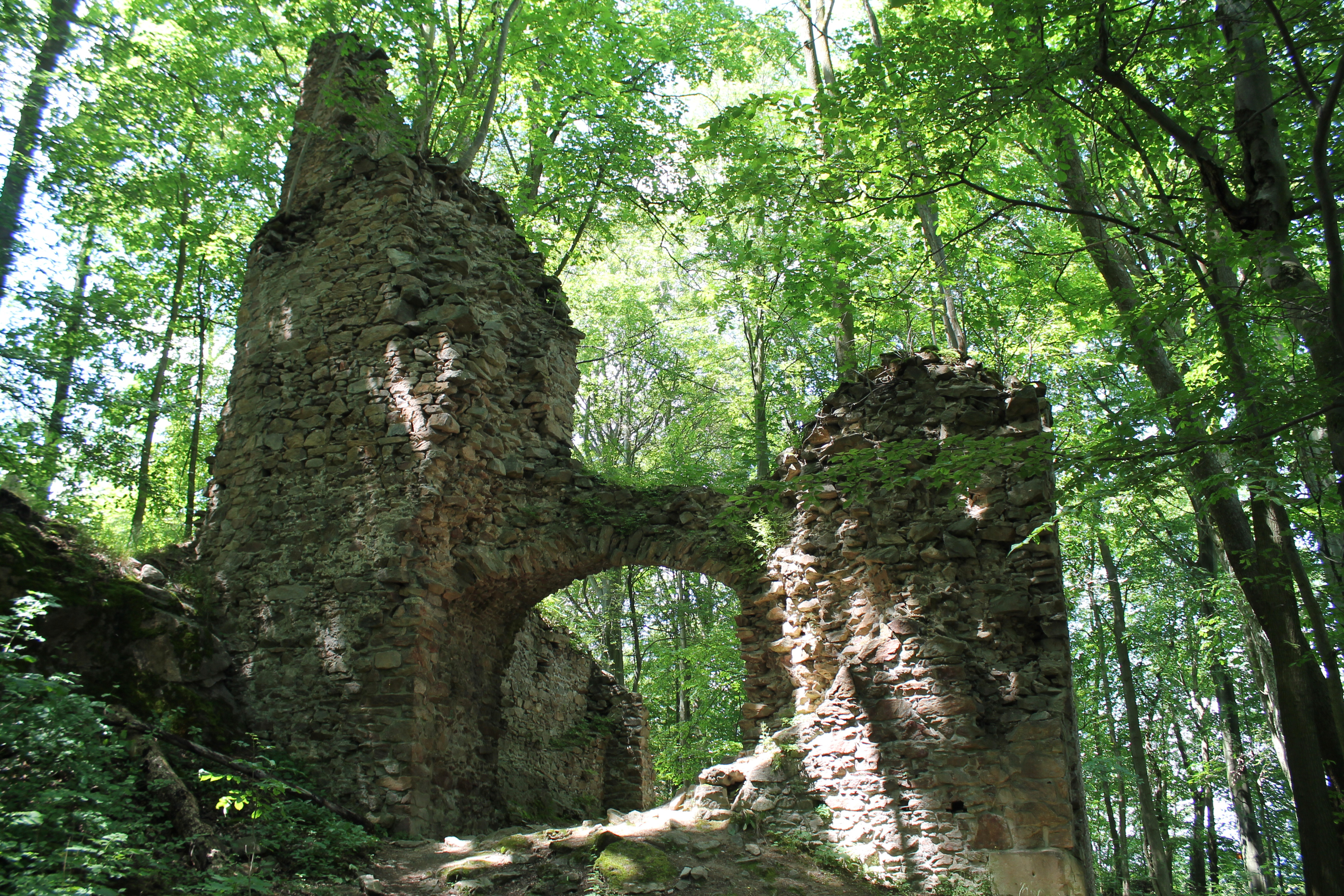 Oheb Castle, Proseč, Seč, Chrudim District, Czech Republic